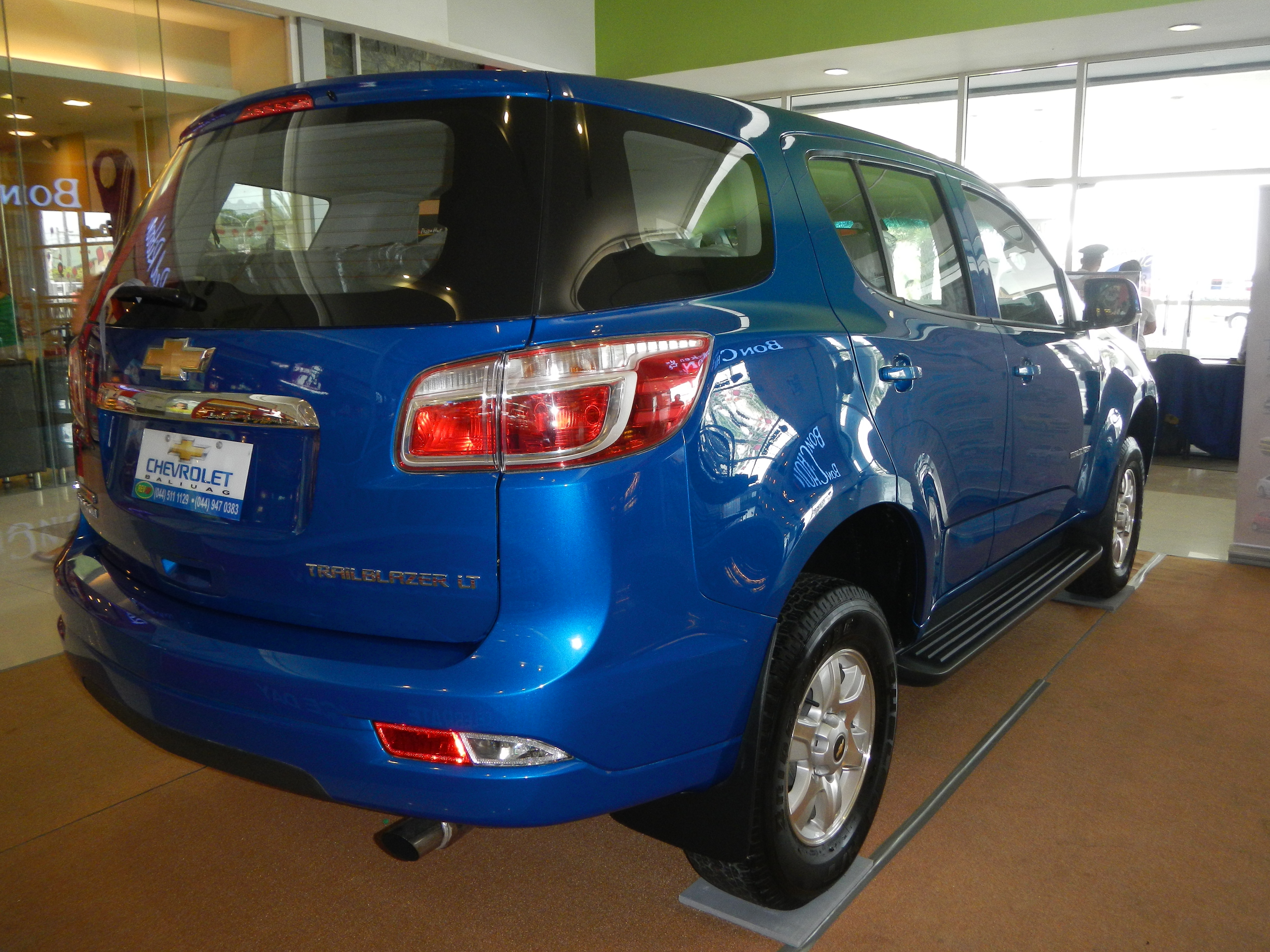 Trail Blazer LT, Chevrolet at SM City Baliuag